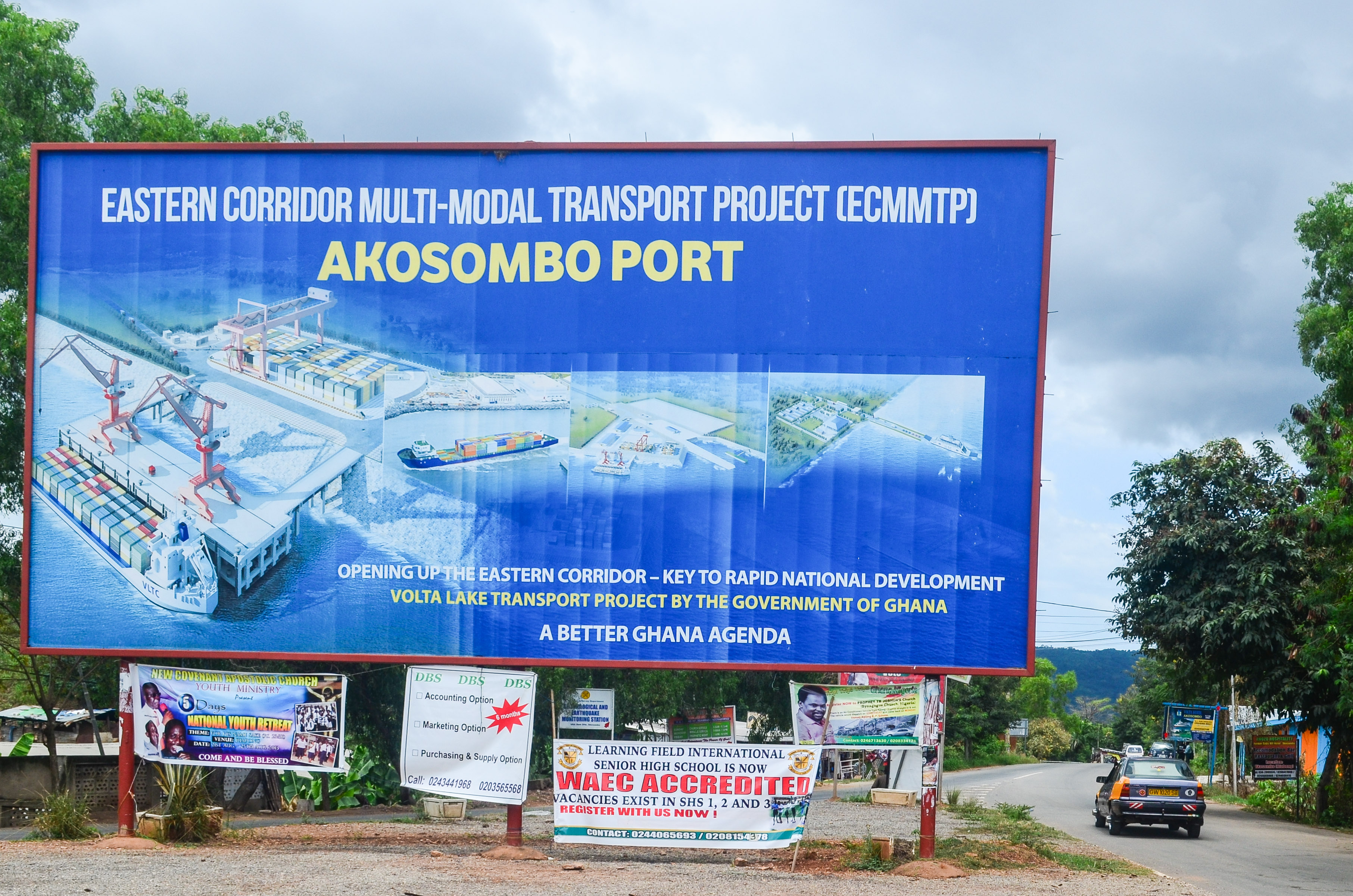 Akosombo Port Signage, Volta in Eastern Region, Ghana.